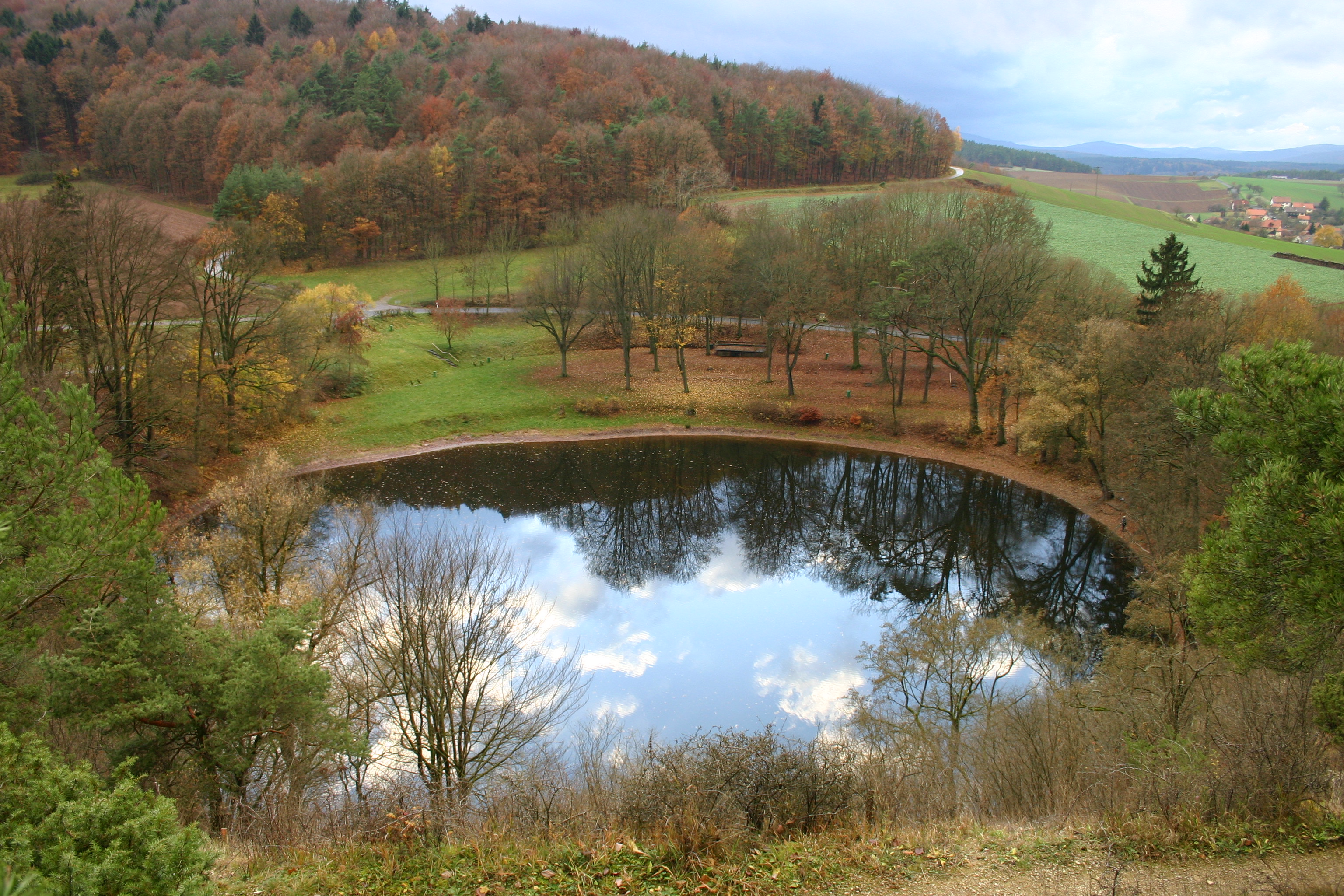 Sinkhole near Mellrichstadt, Bavaria, in Germany